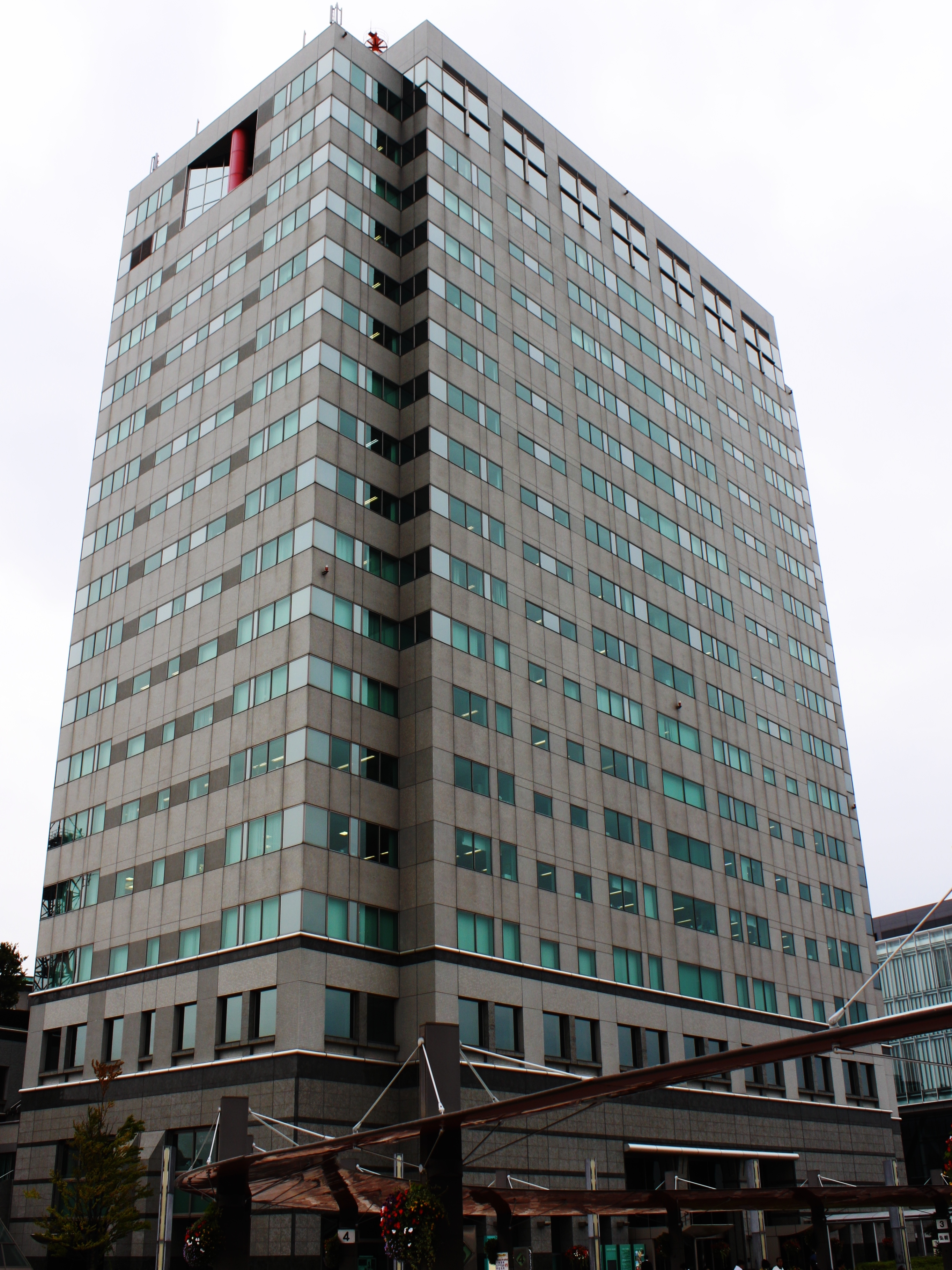 MALIOS Building, Morioka, Iwate, Japan.